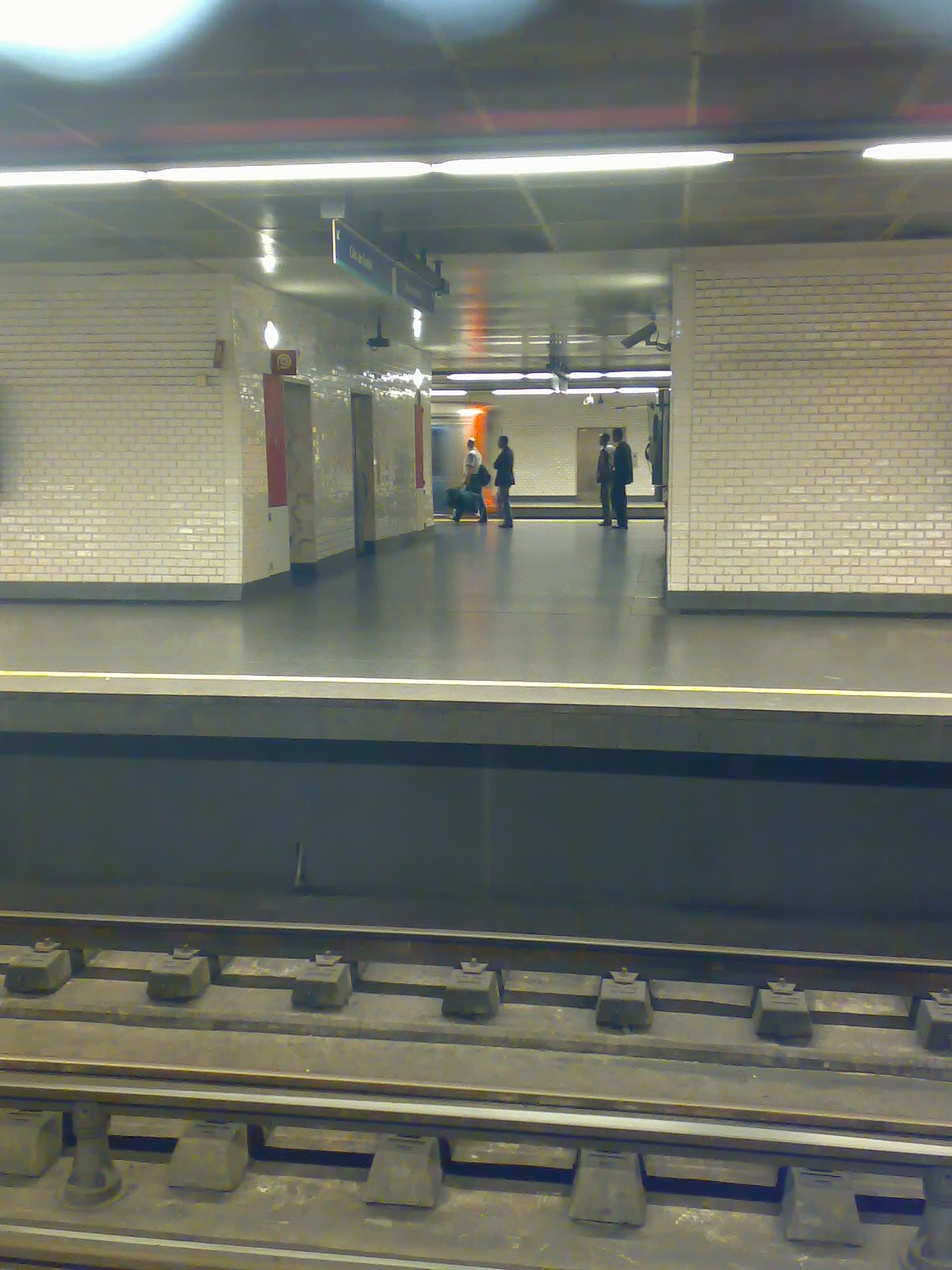 Baixa-Chiado interchange station on the green (verde) and blue (azul) lines of the Lisbon Metro.